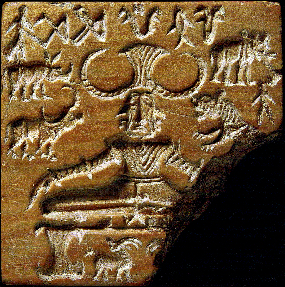 seal discovered during excavation of the Mohenjodaro archaeological site in the Indus Valley has drawn attention as a possible representation of a "yogi" or "proto-siva" figure.[3] This "Pashupati" (Lord of Animals, Sanskrit paśupati)[4][5] seal shows a seated figure, possibly ithyphallic, surrounded by animals. There are three faces to this figure 1 each on the side and this could be that of the four headed Brahma with the fourth head hiding behind. One can see clearly the long nose and mouth wide lips on the two sides. Tag: 12: M-304 A